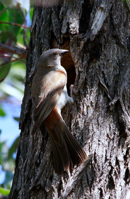 Southern Grey-headed Sparrow Passer diffusus, Marakele National Park, South Africa. Strange behaviour looking into a barbet hole.